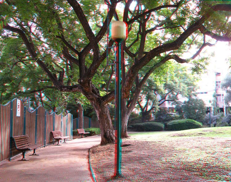 Meir Viktor Garden Givatayim 3d stereoscopic image